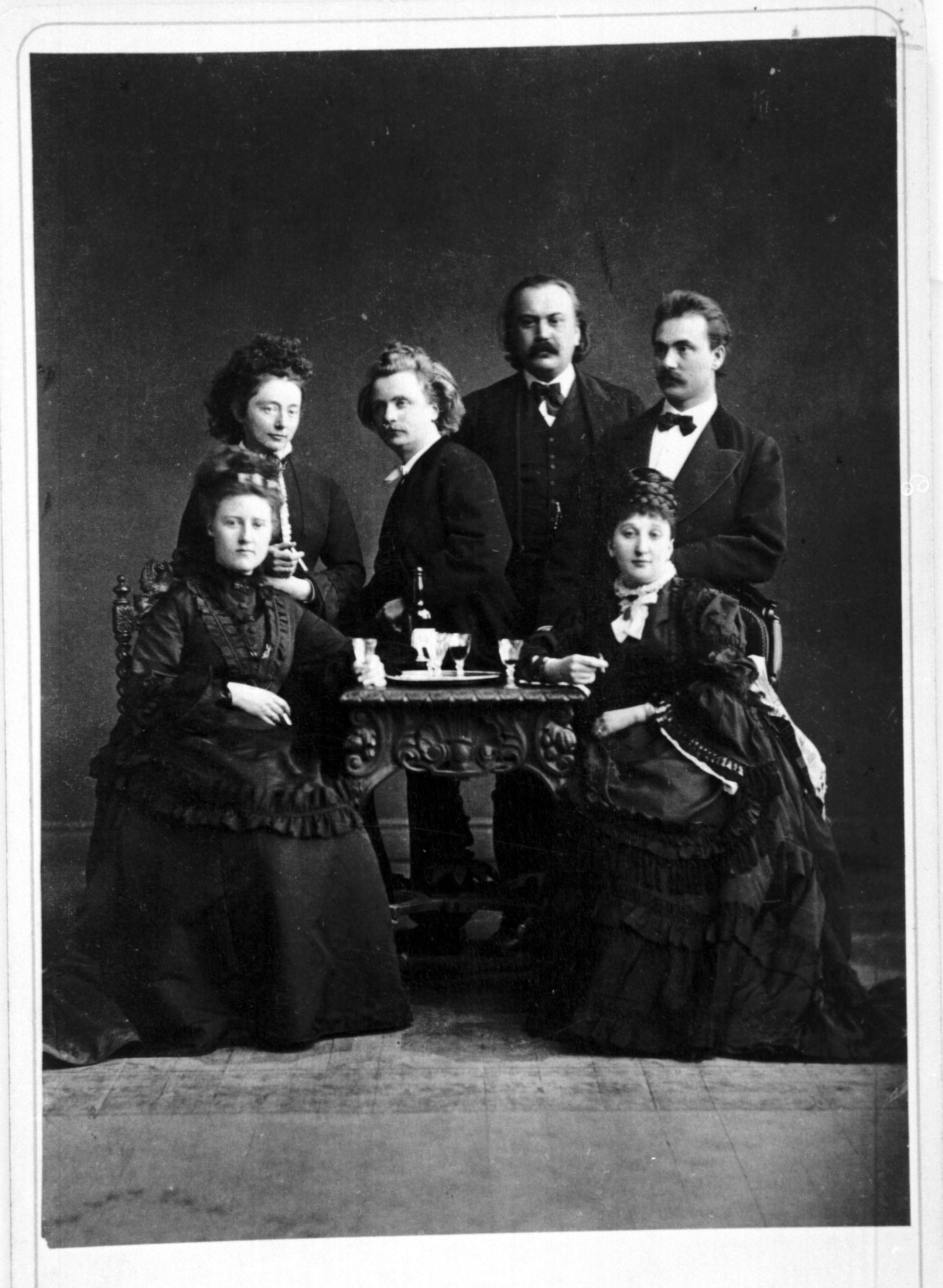 Artist: unknown Date/place: unknown Subject: Nina & Edvard Grieg with friends Medium: photographic positive, B&W Notes: Nina & Edvard Grieg with Edmund Neupert, Johan Svendsen and two ladies Persistent URL: [#//bergenbibliotek.no/digitale-samlinger//engelsk/-intro-eng” Original belongs to the Edvard Grieg Archives at Bergen Public Library] Original reference: EGM0236